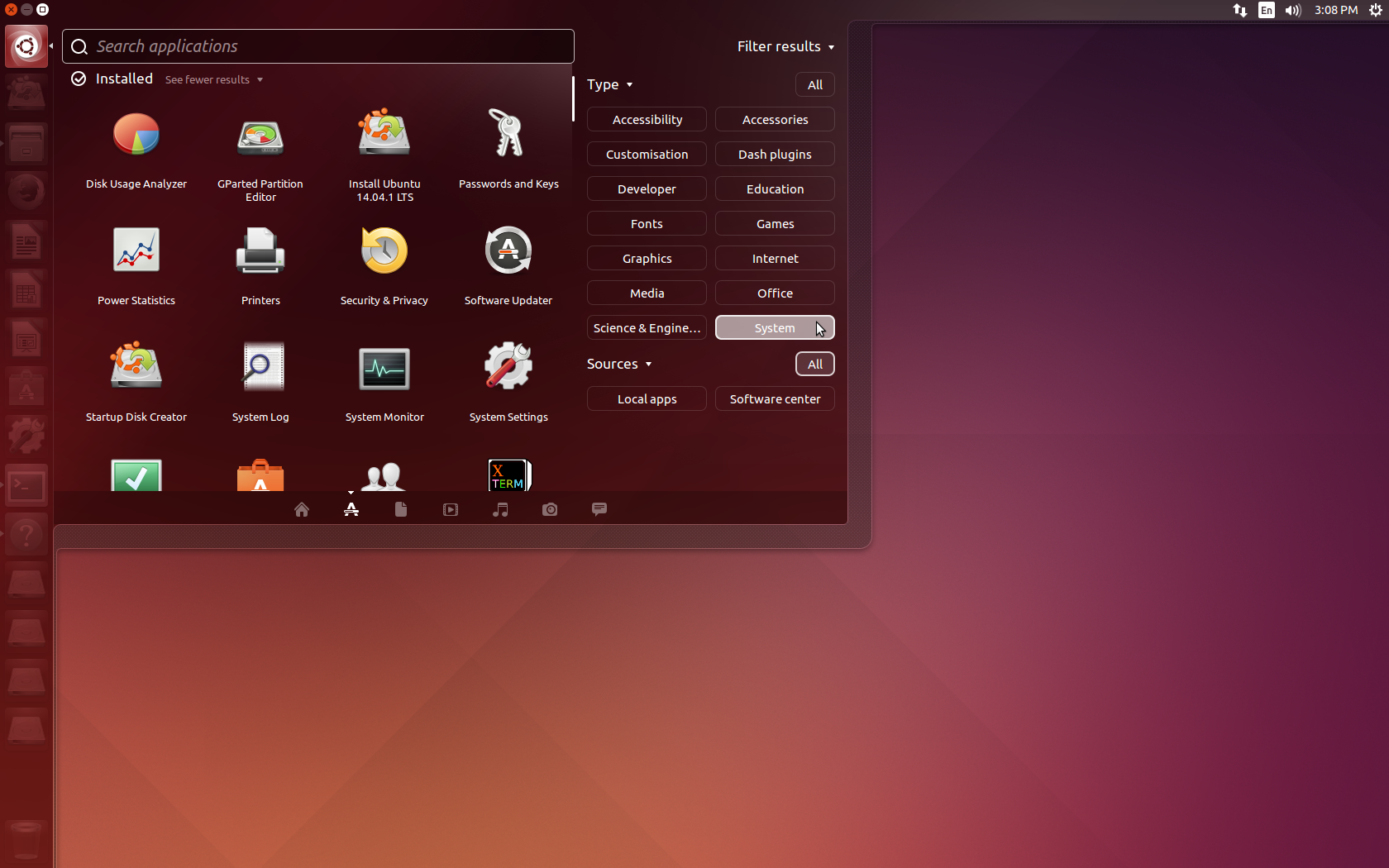 Dash App Lens in Ubuntu 14.04